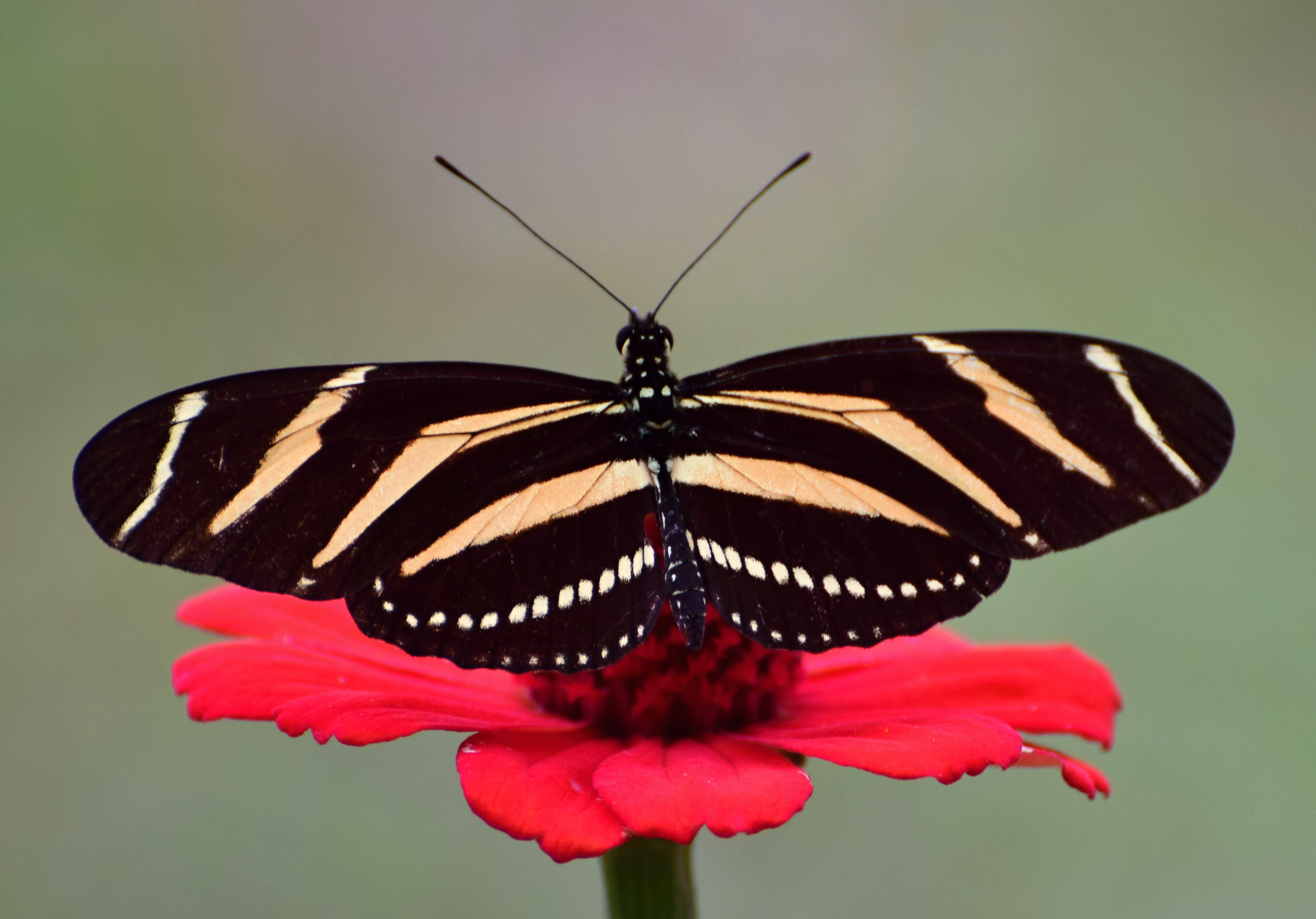 Heliconius charithonia (Nymphalidae)